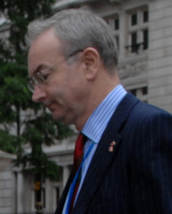 Major-General Peter Gilchrist, cropped from 080805-F-6684S-012 Vice Chairman of the Joint Chiefs of Staff Marine Gen. James E. Cartwright, left, and Maj. Gen. Peter Gilchrist, head of the British Defense Staff-U.S., walk to the Old War Building in London, England, Aug. 5, 2008. Cartwright traveled to England to meet with his official counterparts and receive briefings on operations. DoD photo by Master Sgt. Adam M. Stump, U.S. Air Force. (Released)